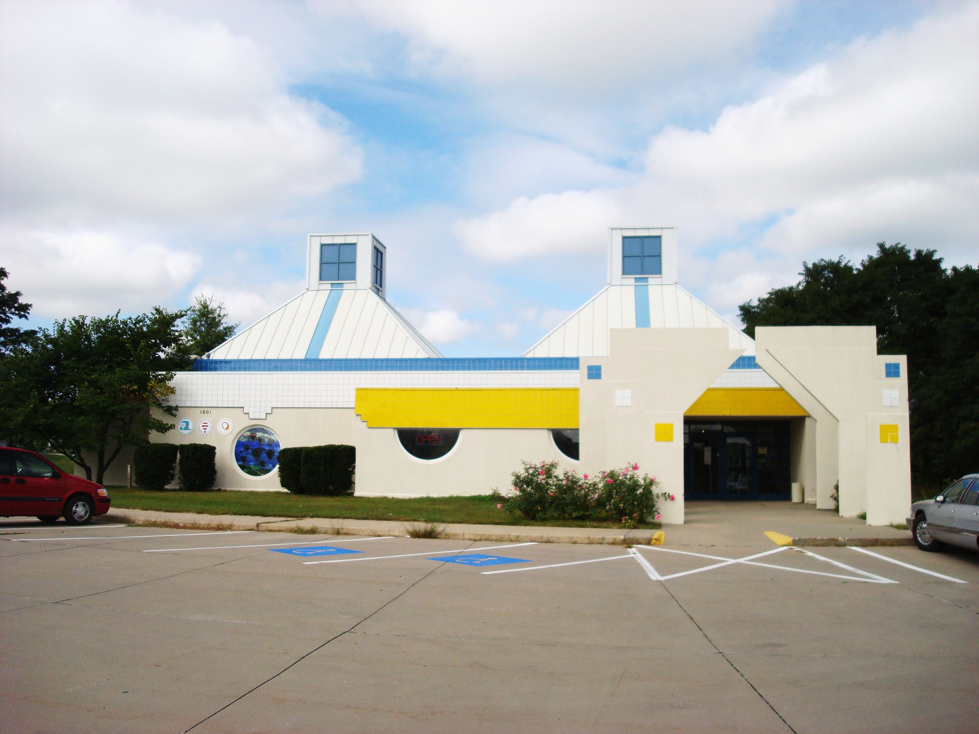 National Balloon Museum located in Indianola, Iowa. Museum contains artifacts about the history of the sport of hot air ballooning.